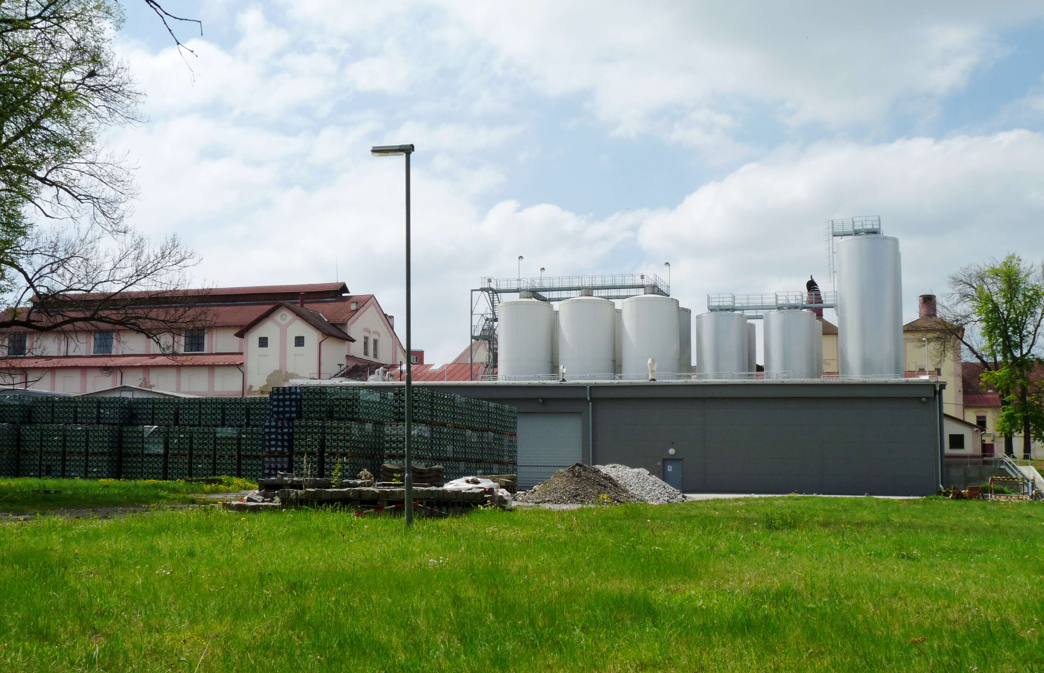 Samson, a brewery in the city of České Budějovice, South Bohemian Region, Czech Republic, as seen from the river Malše.